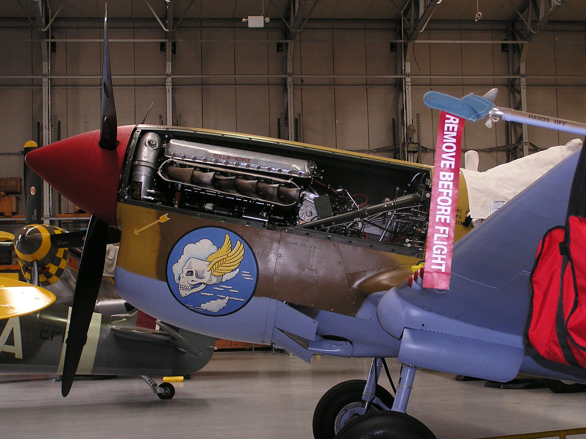 The Fighter Collection's Curtiss P40F Warhawk/Kittyhawk II G-CGZP undergoing maintenance at Duxford, 22 August 2012. Rolls-Royce Merlin 500 engine.